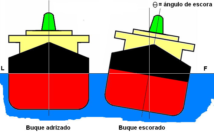 right and port list (spanish)